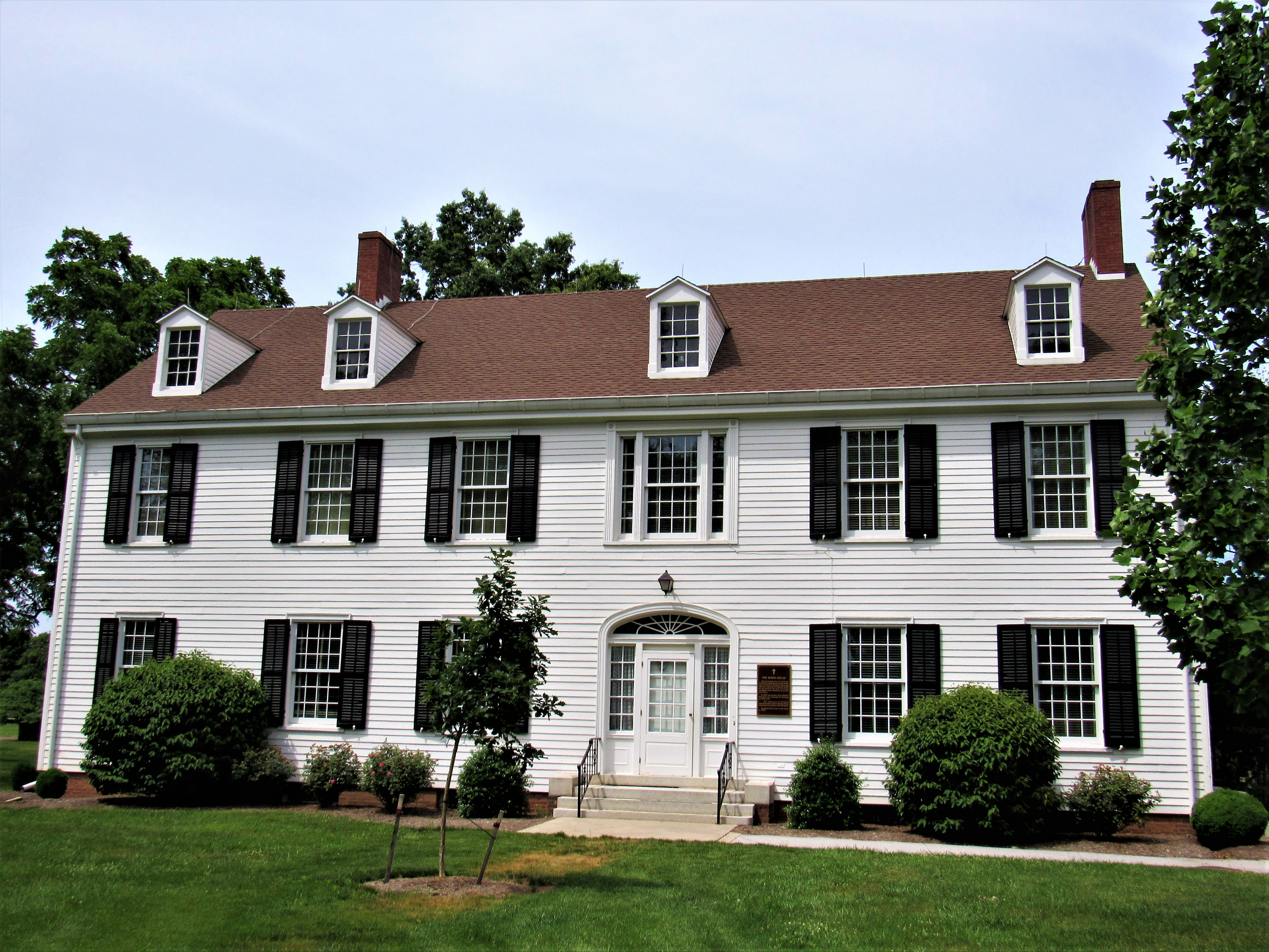 The "White House" on the grounds of the National Shrine of St. Elizabeth Ann Seton in Emmitsburg, Maryland.